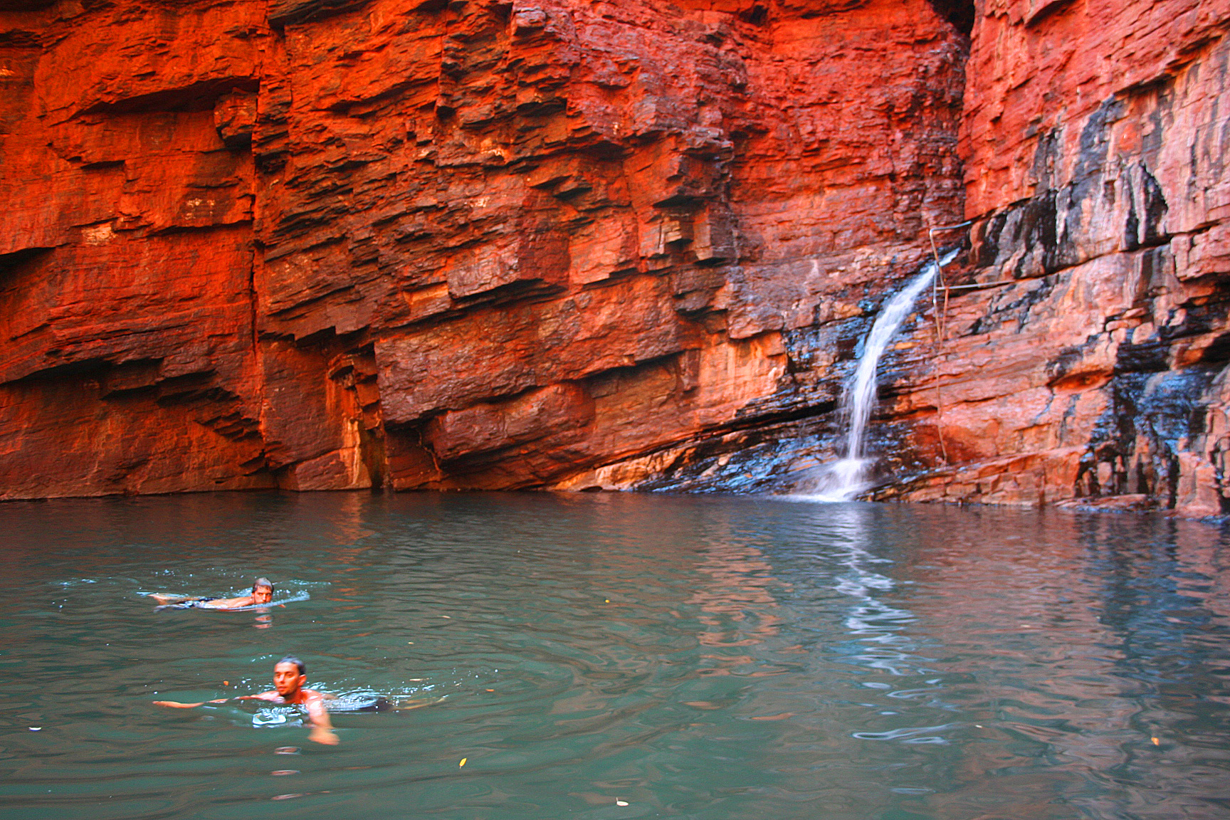 Handrail Pool, part of Weano Gorge in Karijini National Park